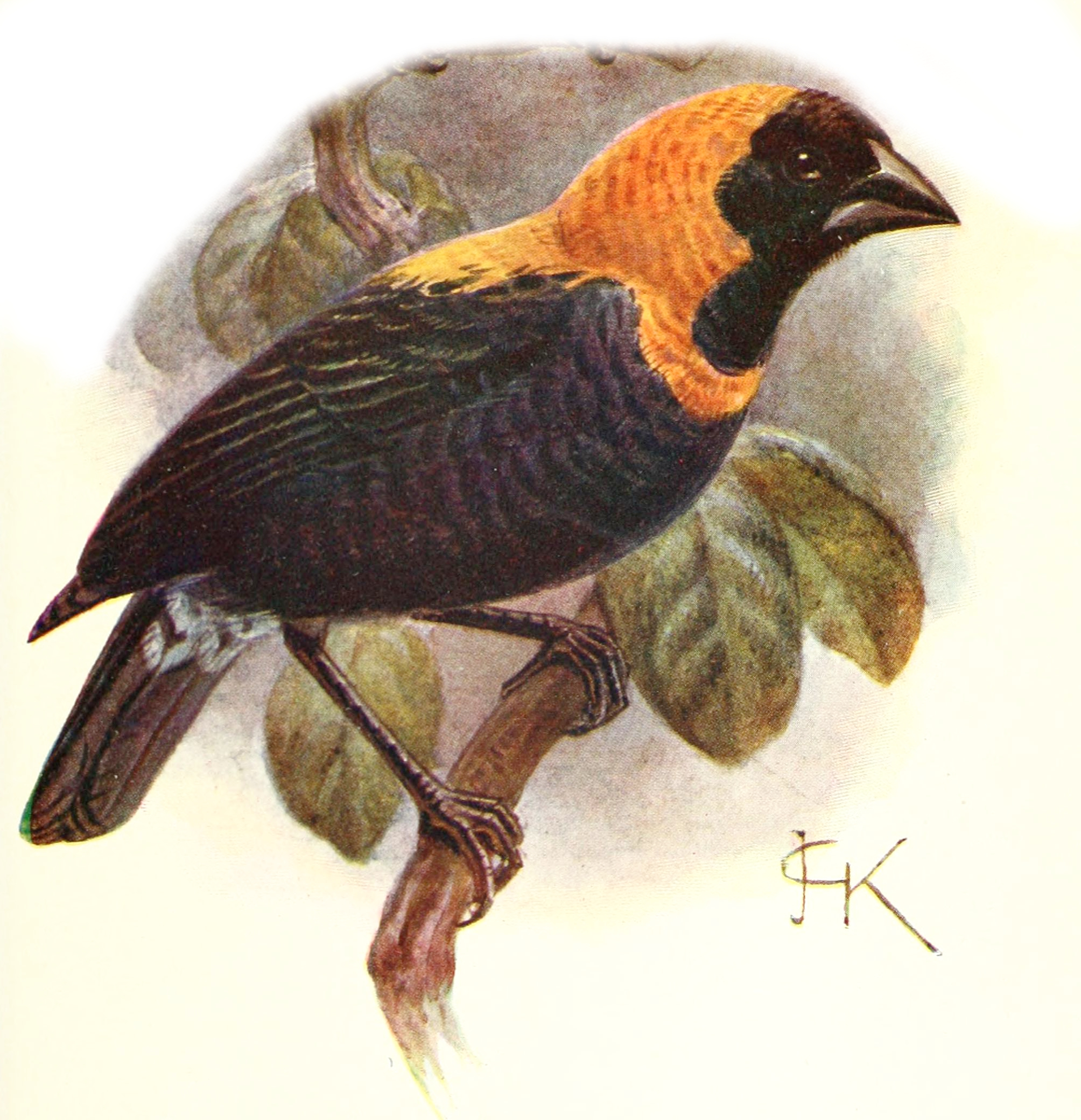 Euplectes gierowii ansorgei